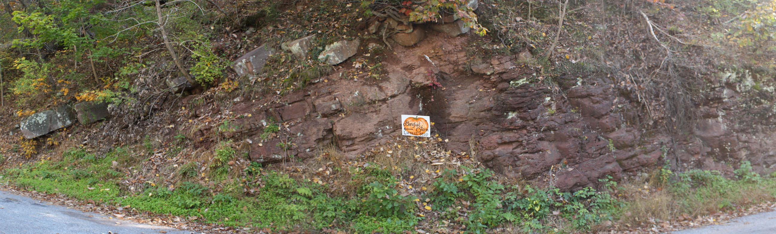 Outcrop of Gettysburg Formation along Conewago Road in York County, Pennsylvania, facing east from the bridge over Conewago Creek. The beds dip about 25 degrees to the northwest. Panorama spliced from three images using Canon PhotoStitch.